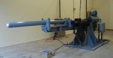 Utron Inc. 45 mm Combustion Light Gas Gun.